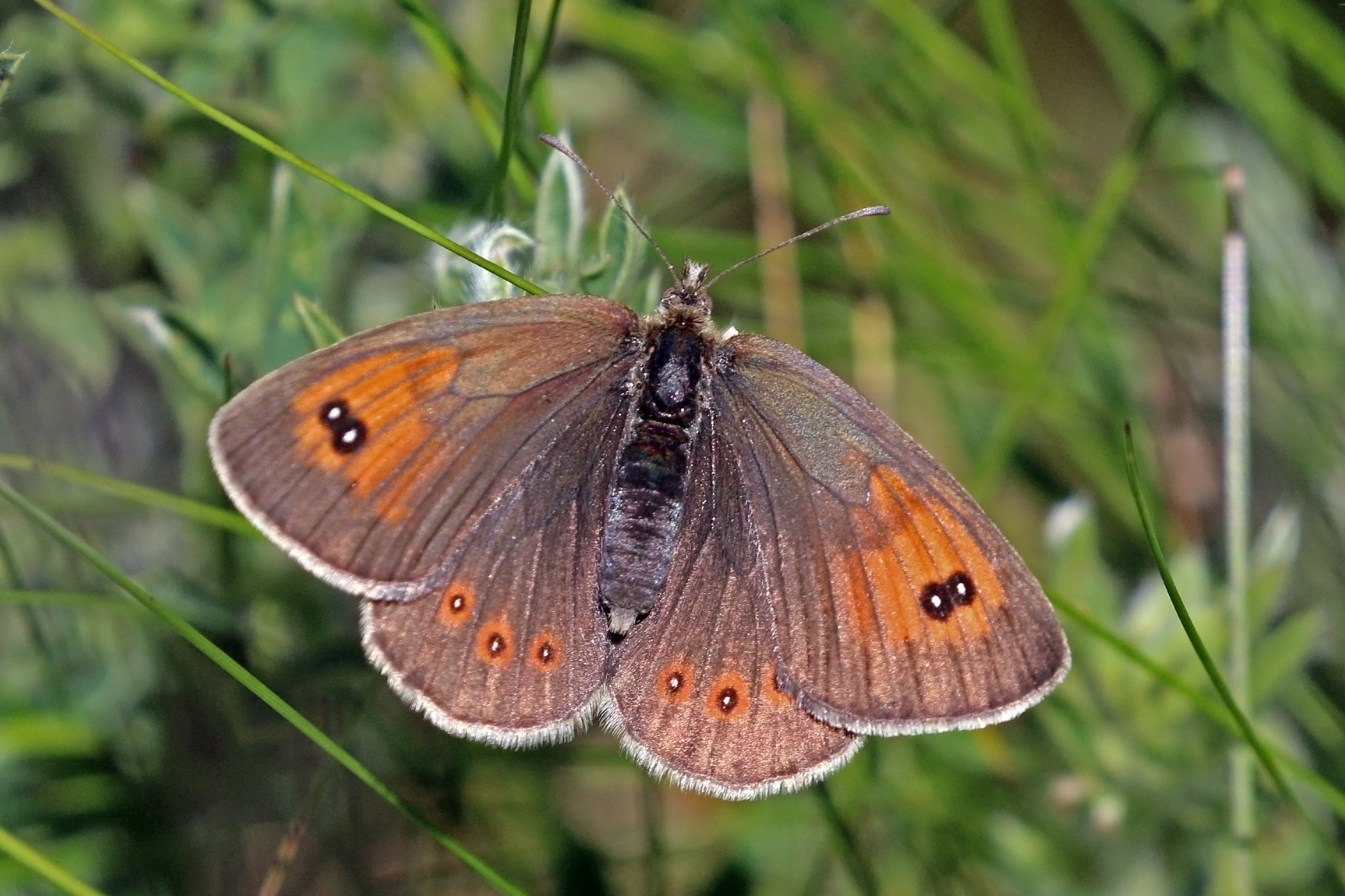 Ottoman brassy ringlet (Erebia ottomana) female, Bezbog Lake, Dobrinishte, Bulgaria